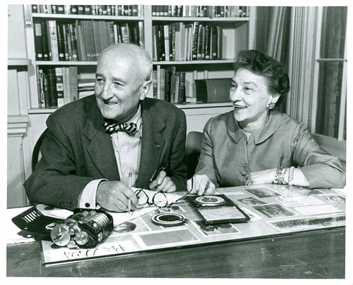 Exhibit in the National Cryptologic Museum, Fort Meade, Maryland, USA. All items in this museum are unclassified; items created by the United States Government are not subject to copyright restrictions.